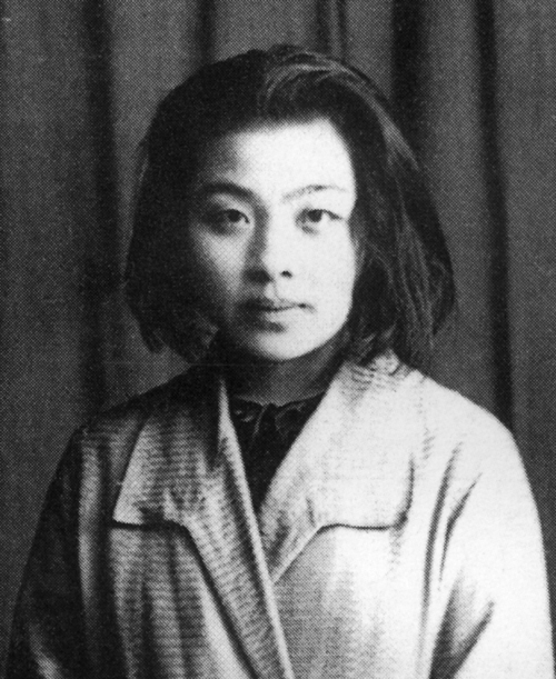 Chinese writer Ding Ling